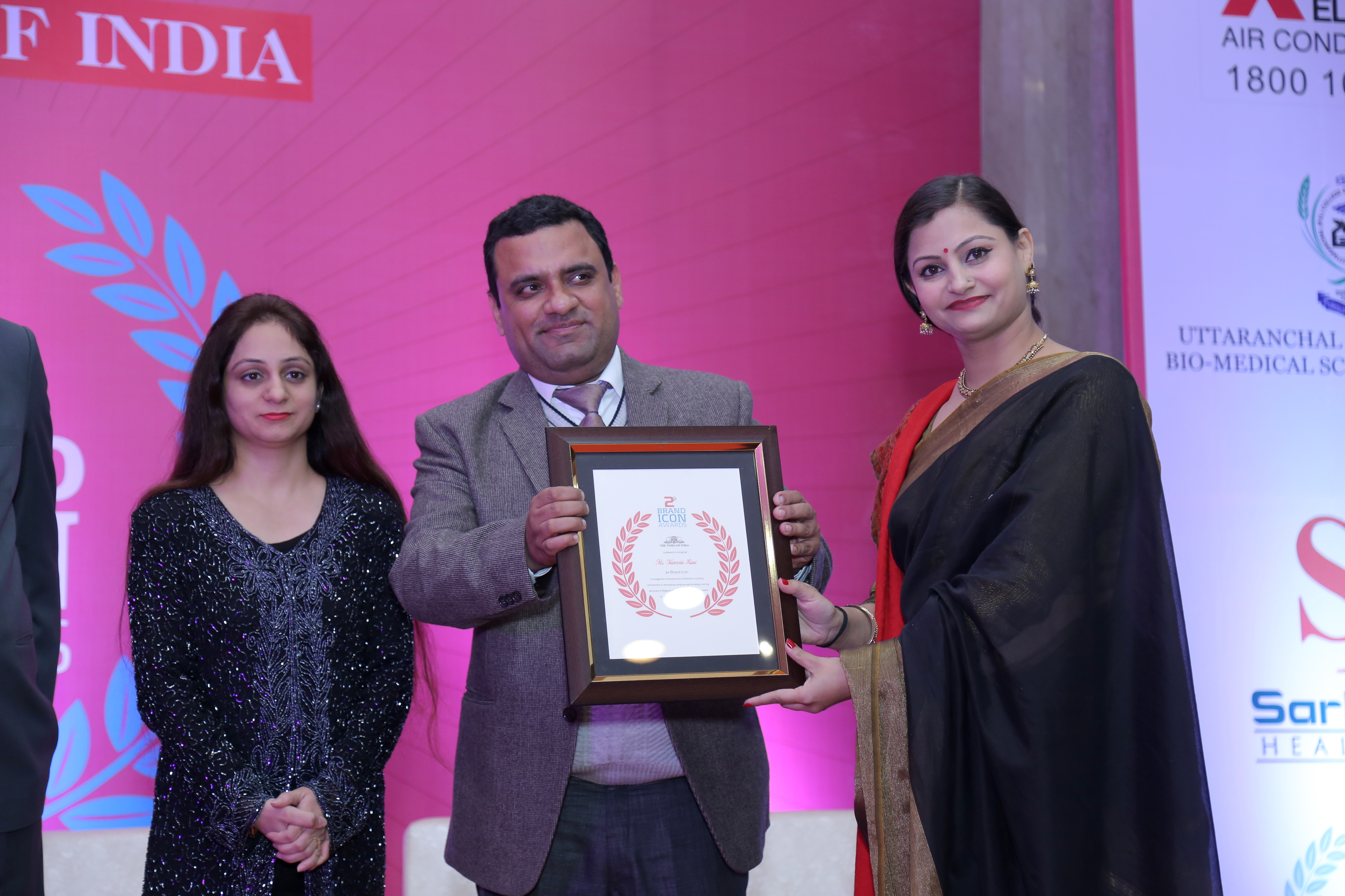 Namrrta receiving Brand Icon Award by TOI